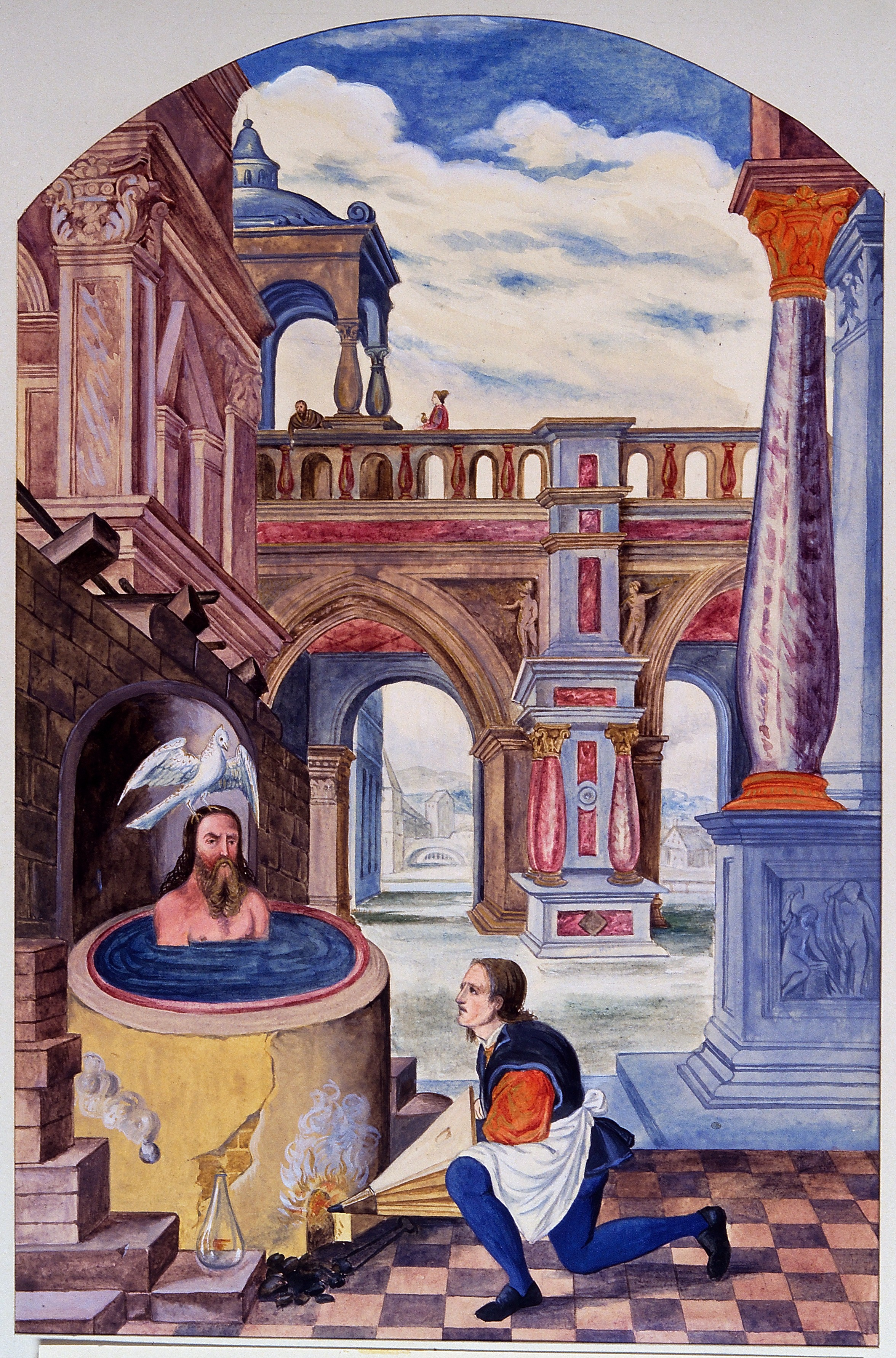 A Christ-like figure seated in a boiling vat while a man works a bellows beneath it; representing the process of self-destruction in order to attain the elixir of life; from Salomon Trismosin's 'Splendor solis'. Watercolour painting. Iconographic Collections Keywords: Jesus Christ; Salomon Trismosin